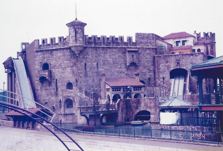 Exterior shot of the High Dive flume/dark ride at Porto Europa, Wakayama Marina City, during construction